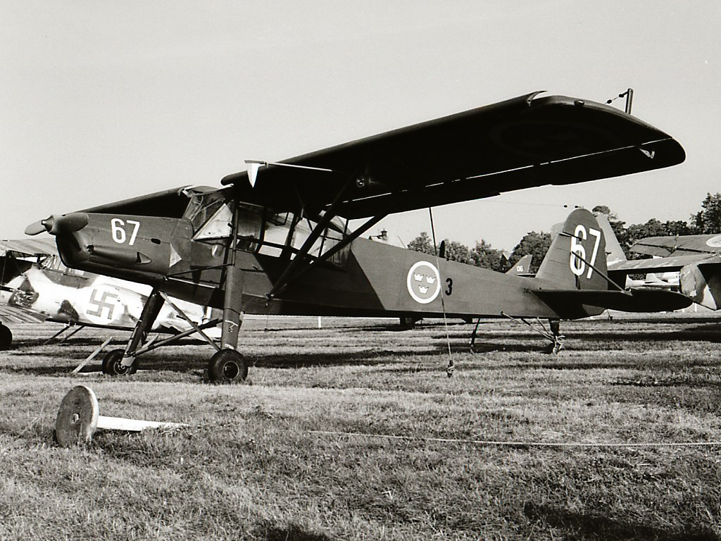 Fieseler Fi 156, Swedish Air Force S 14